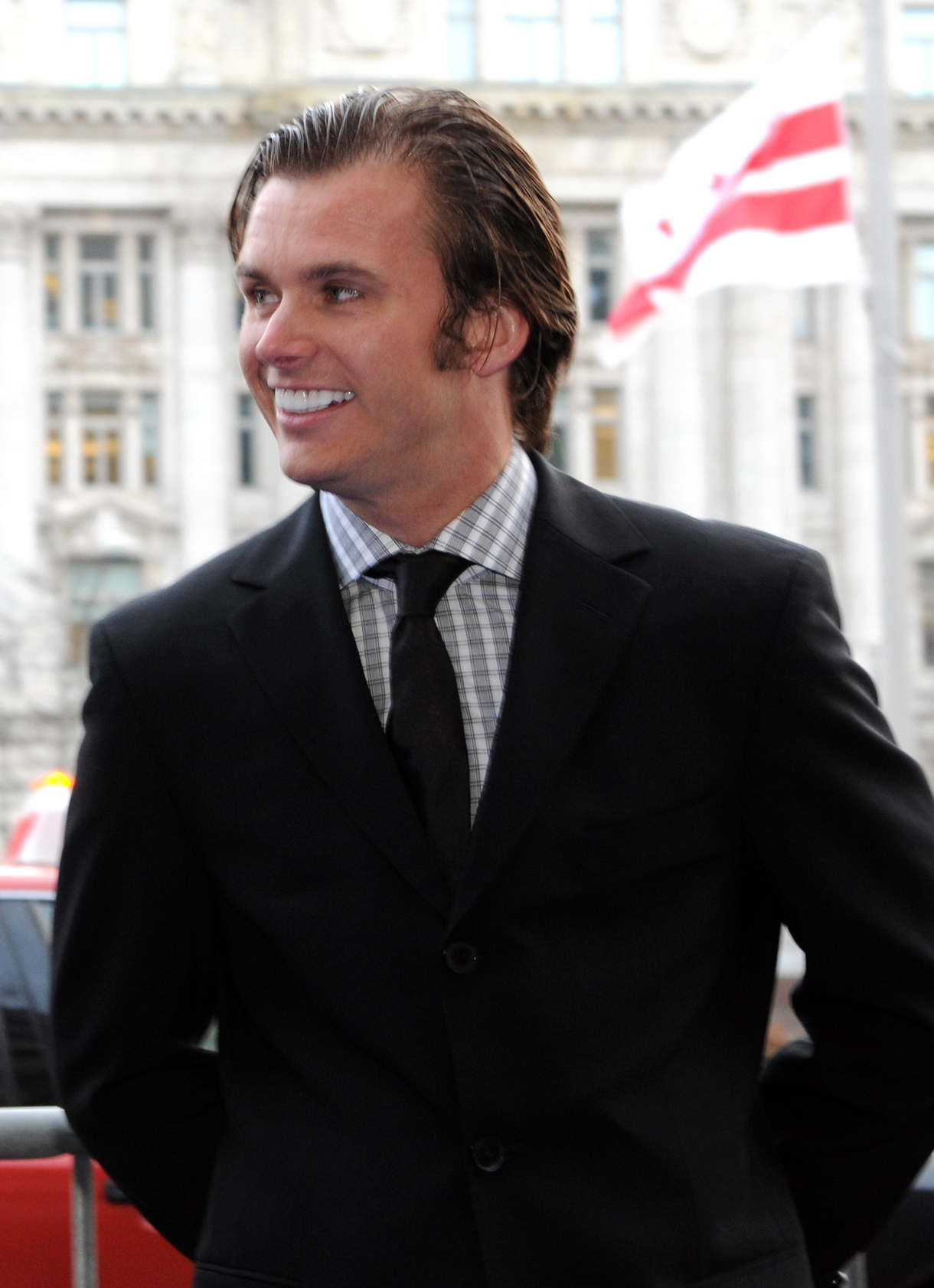 Indy 500 champion Dan Wheldon talks outside the J.W. Marriott Hotel in Washington, D.C., before a gala honoring advocates of the National Guard Youth ChalleNGe Program on Feb. 23, 2010. The 17-month voluntary intervention program provides training and education for high school dropouts, graduating 92,850 since 1993. (U.S. Army photo by Staff Sgt. Jim Greenhill) (Released)